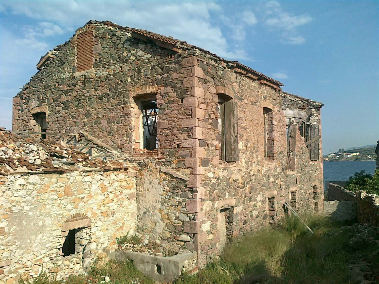 Soap or oil press ruins in Panayouda, Lesvos